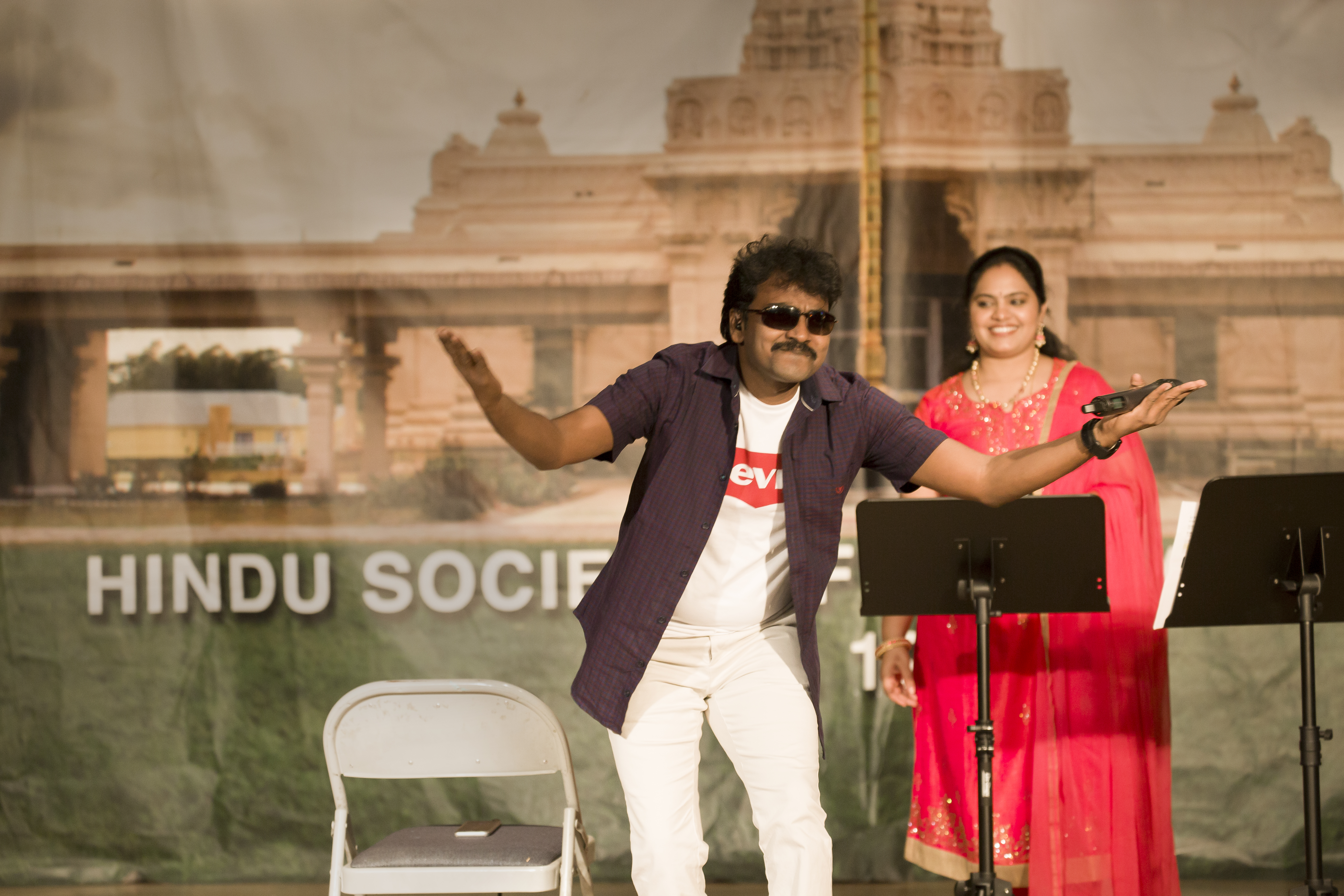 Singer Mallikarjun performing in USA